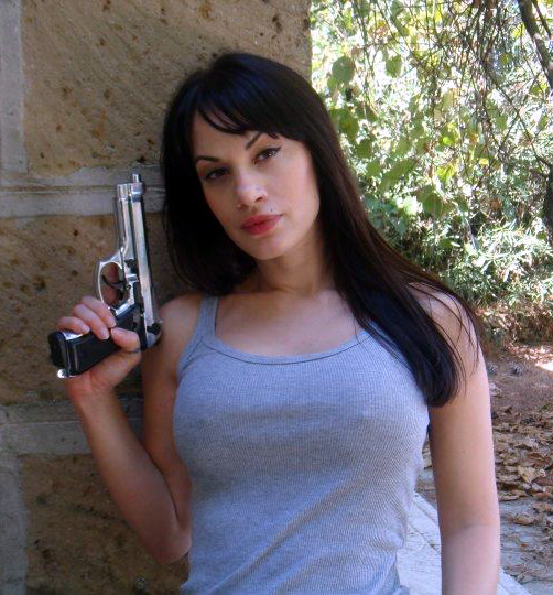 Crisula Stafida, on the set of italian fiction Storie di Borgata (2011)